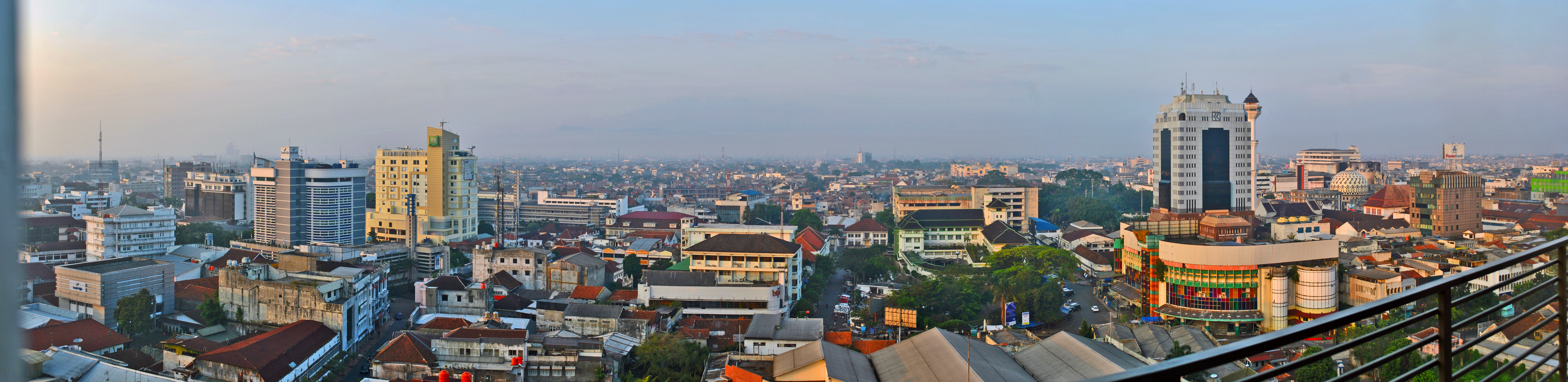 Bandung City Centre - Dawn